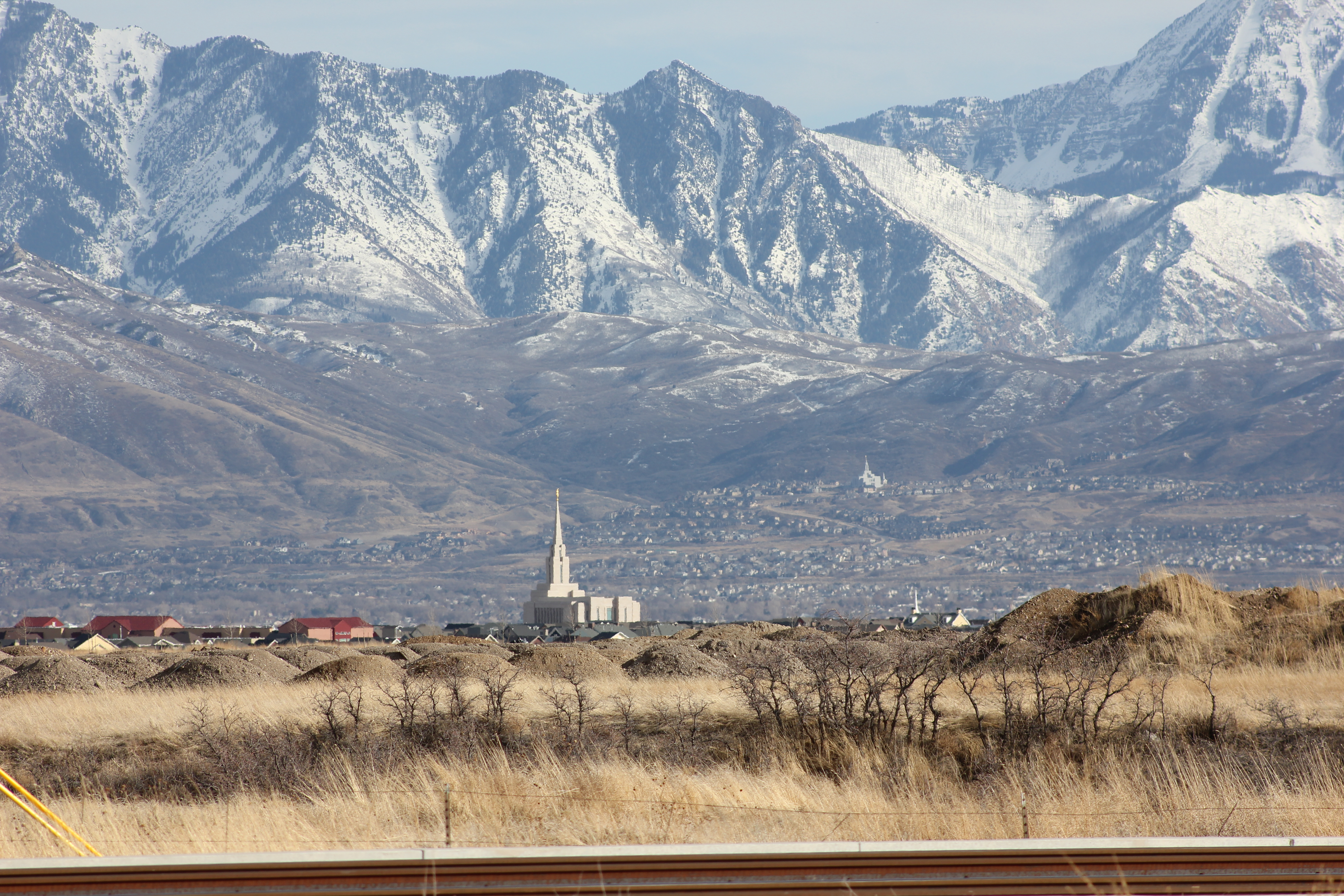 Two Temples